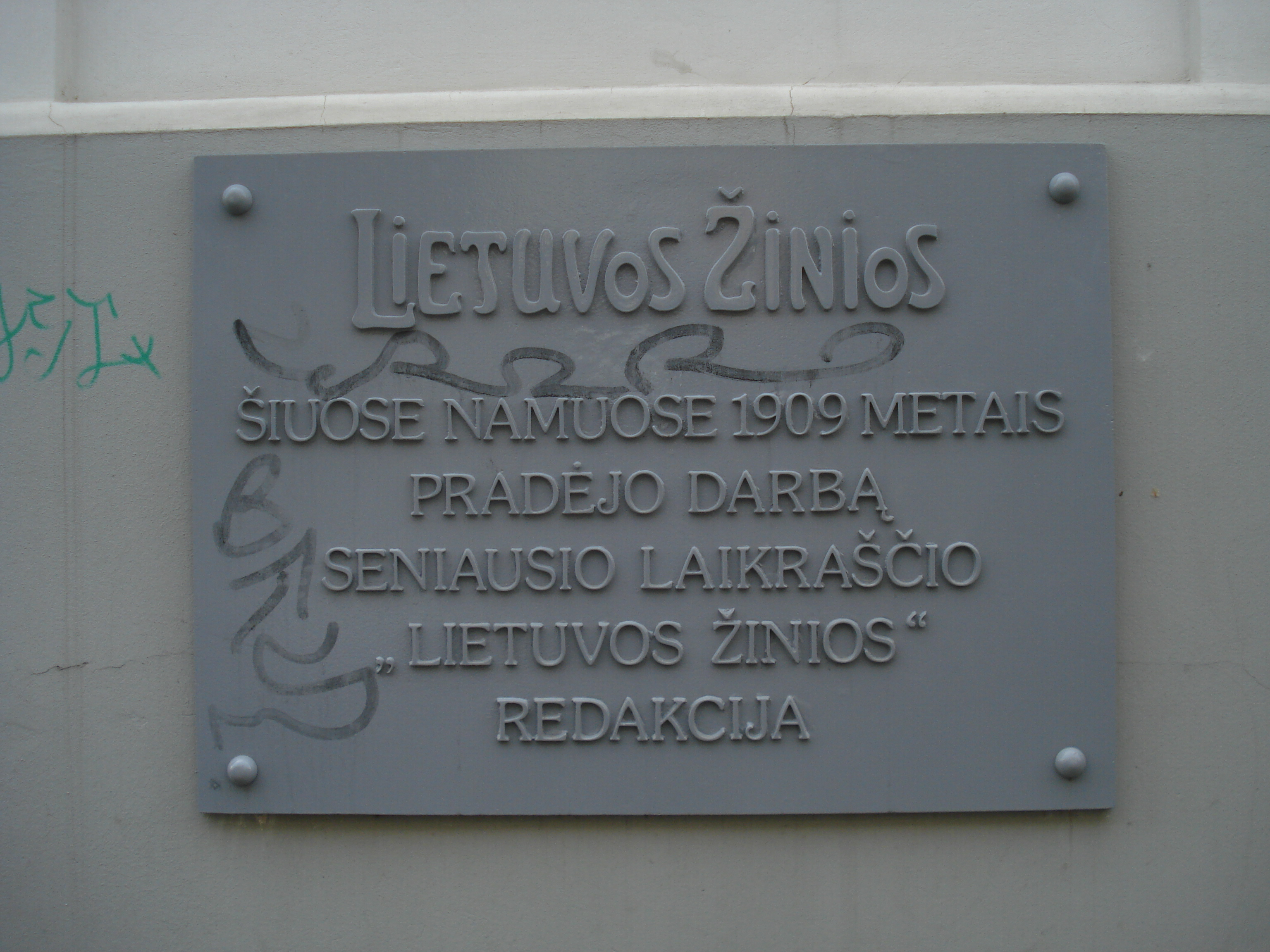 Plaque in memory of the Lithuanian newspaper Lietuvos žinios. Vilniaus street 25, Vilnius